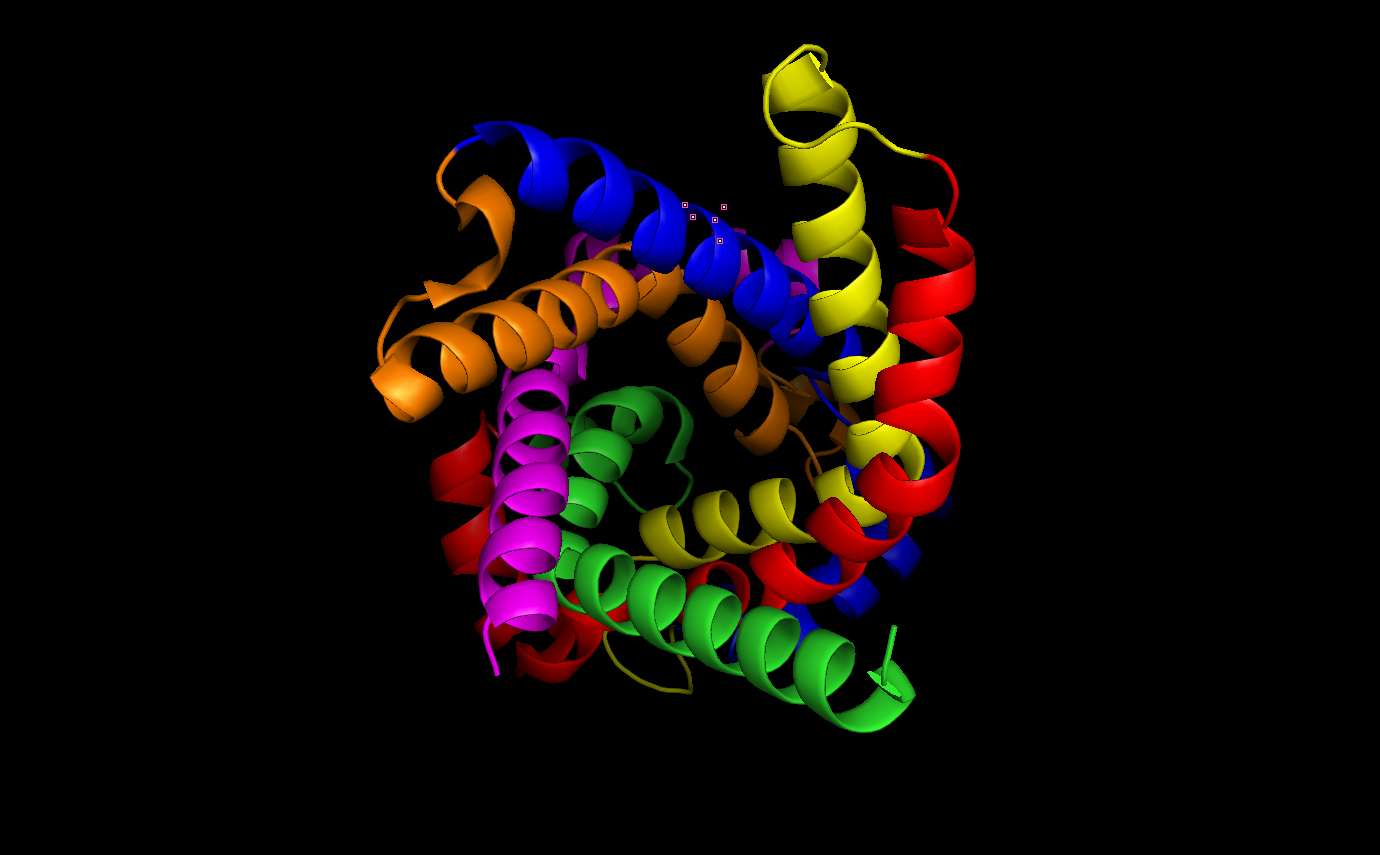 Top view of ATP/ADP Translocase, black background